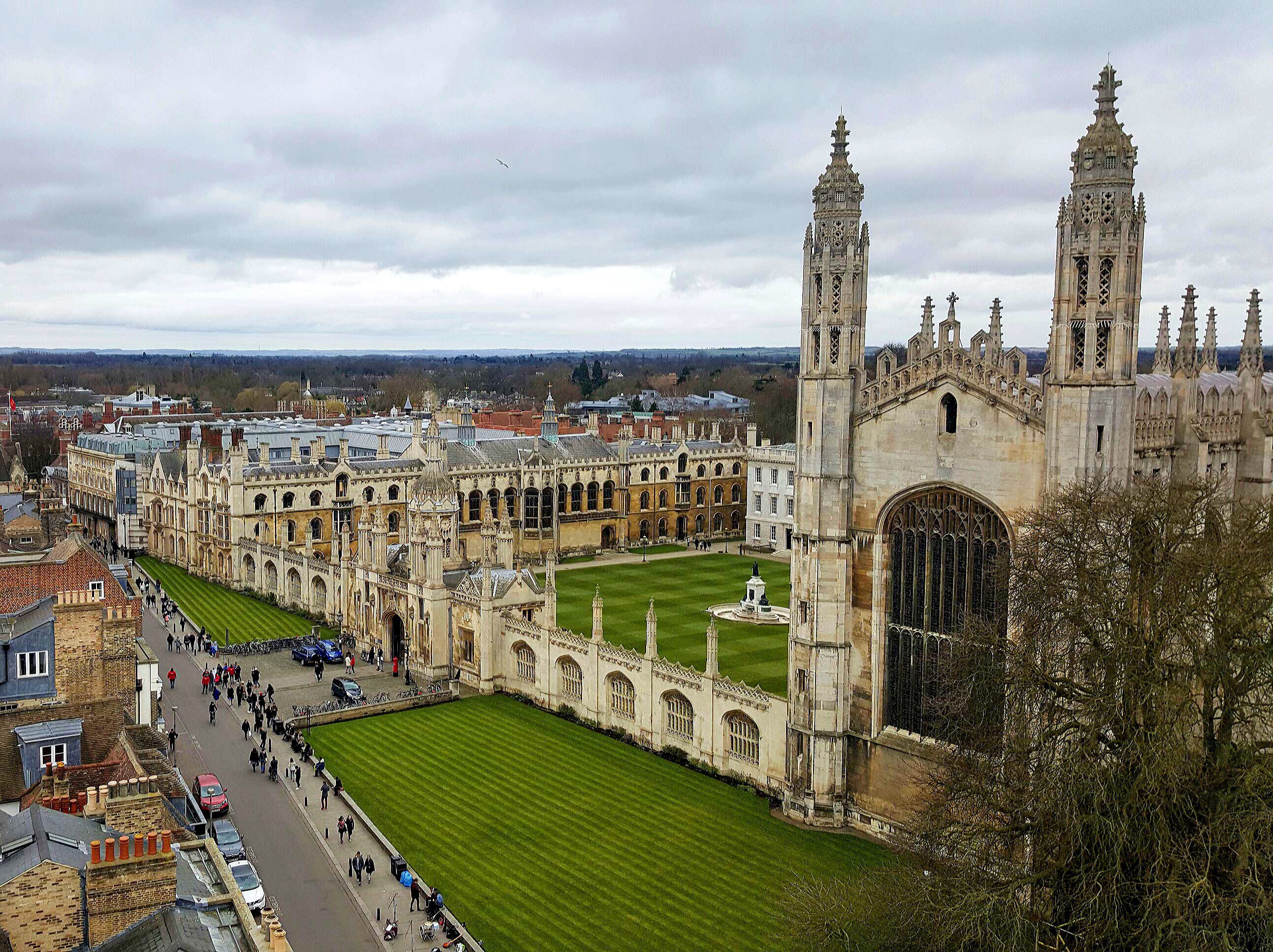 View of Cambridge from tower of St Mary the Great.